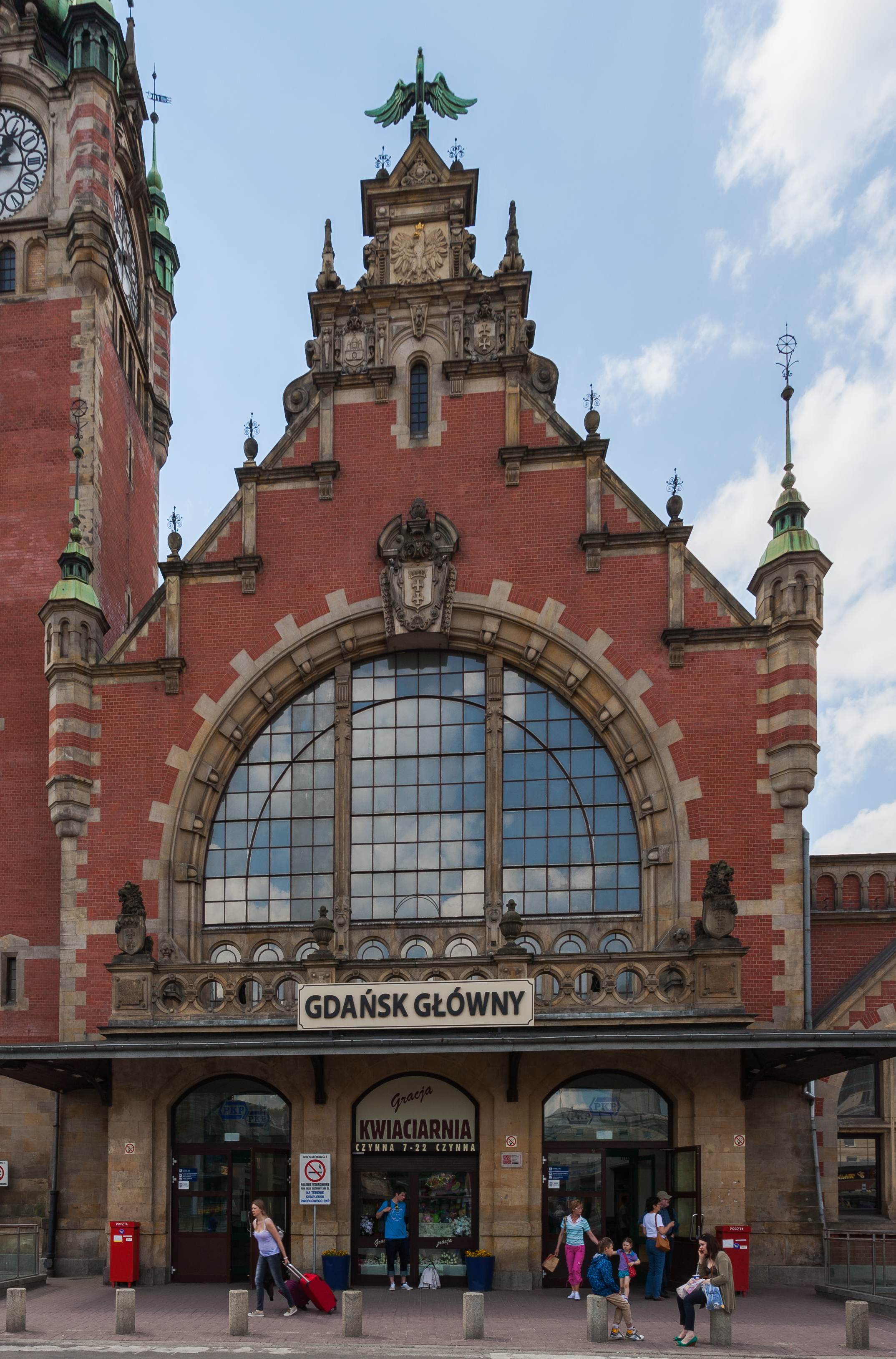 Central Railway Station, Gdansk, Poland